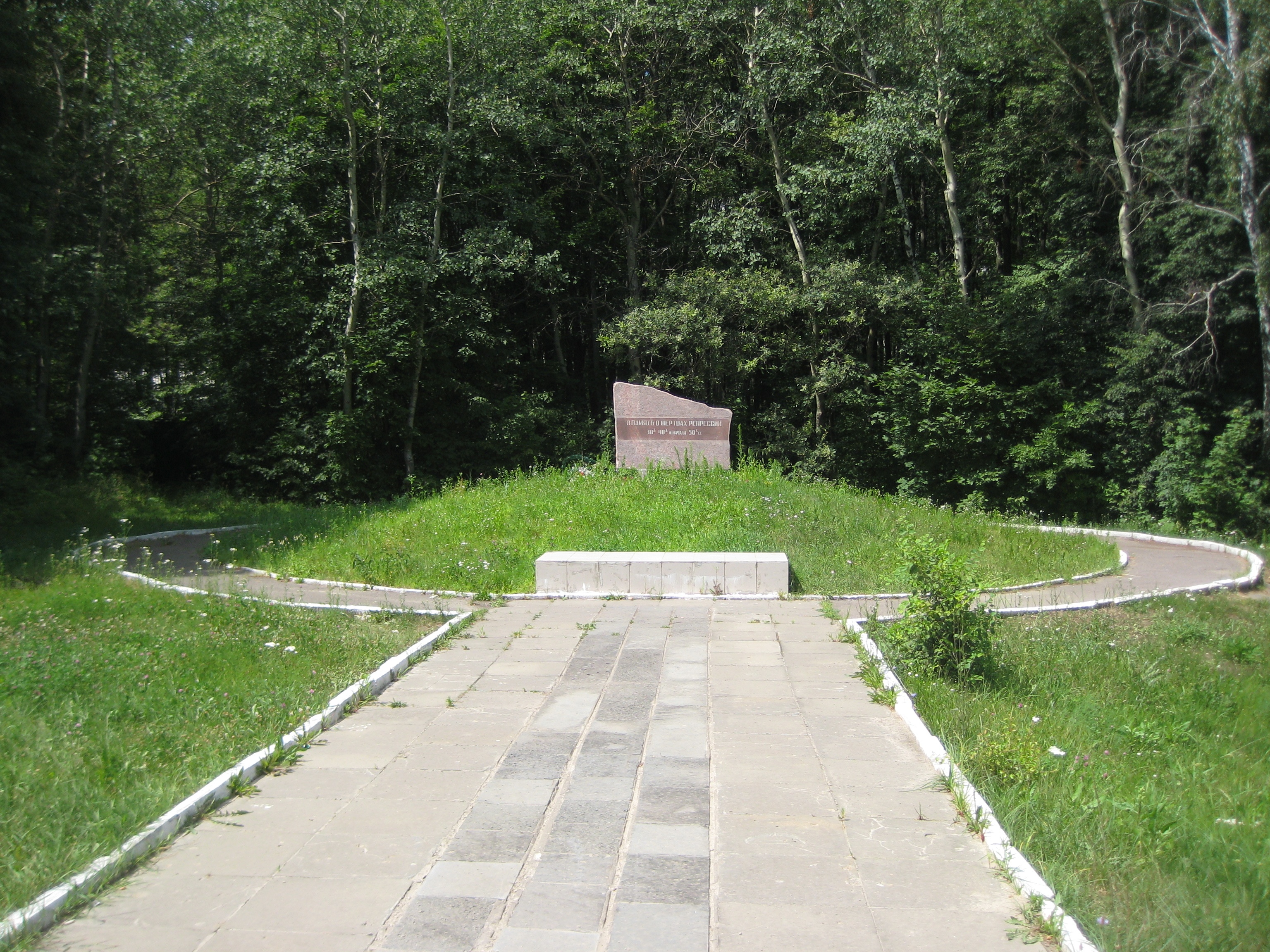 Monument to victims of political repressions in Medvedevsky forest near Oryol, Russia